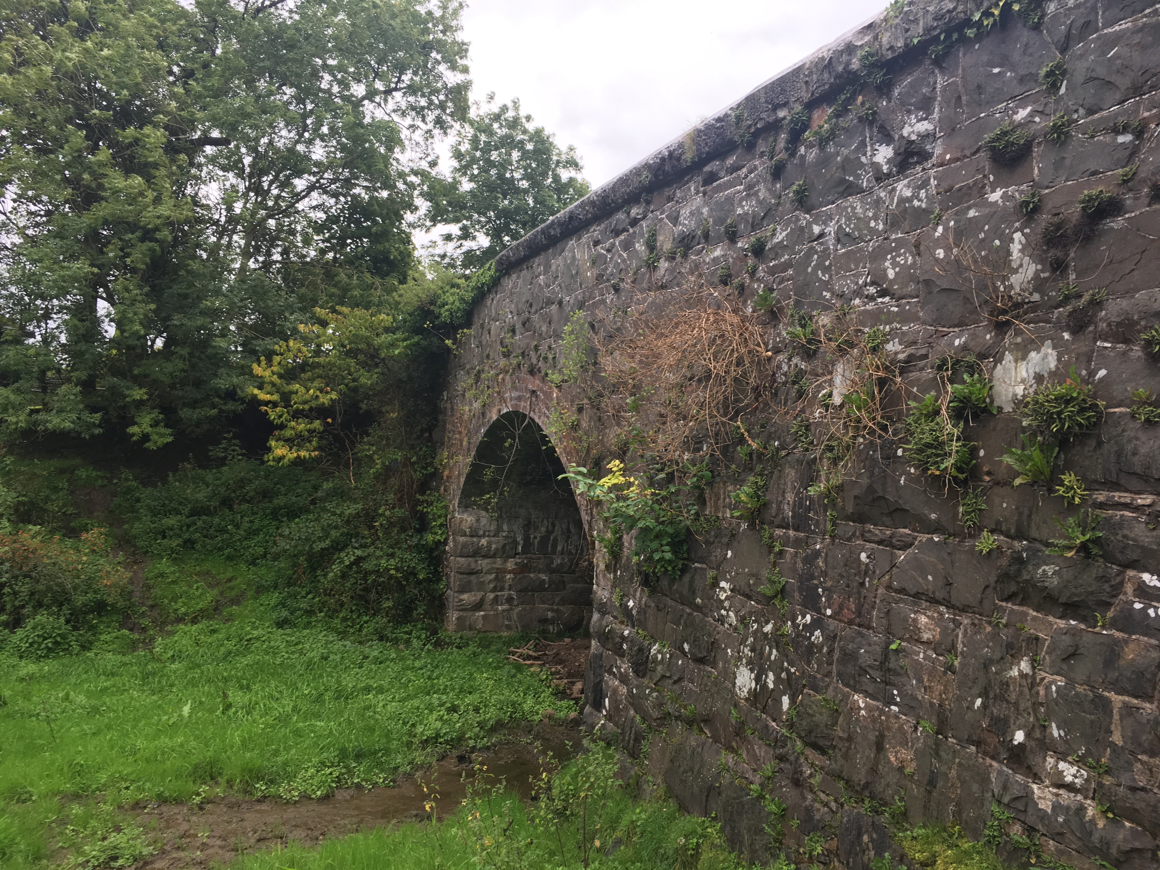 The Glen Road bridge at Ballygowan, where the railway station used to be.